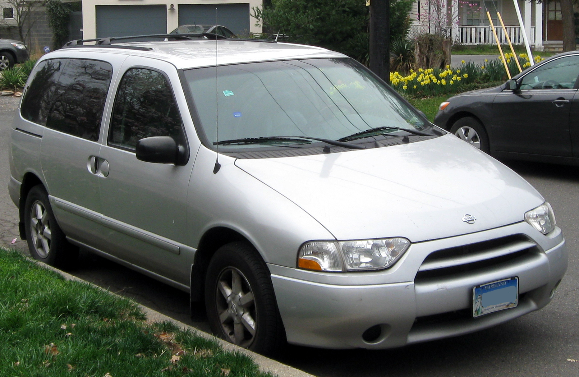 2001-2002 Nissan Quest photographed in Washington, D.C., USA.